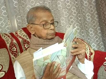 Photo of Assamese poet Nalinidhar Bhattacharya.